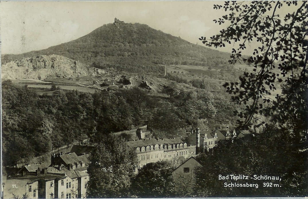 Postcard with theme Teplice City and Doubravka mountain, approximately from year 1903